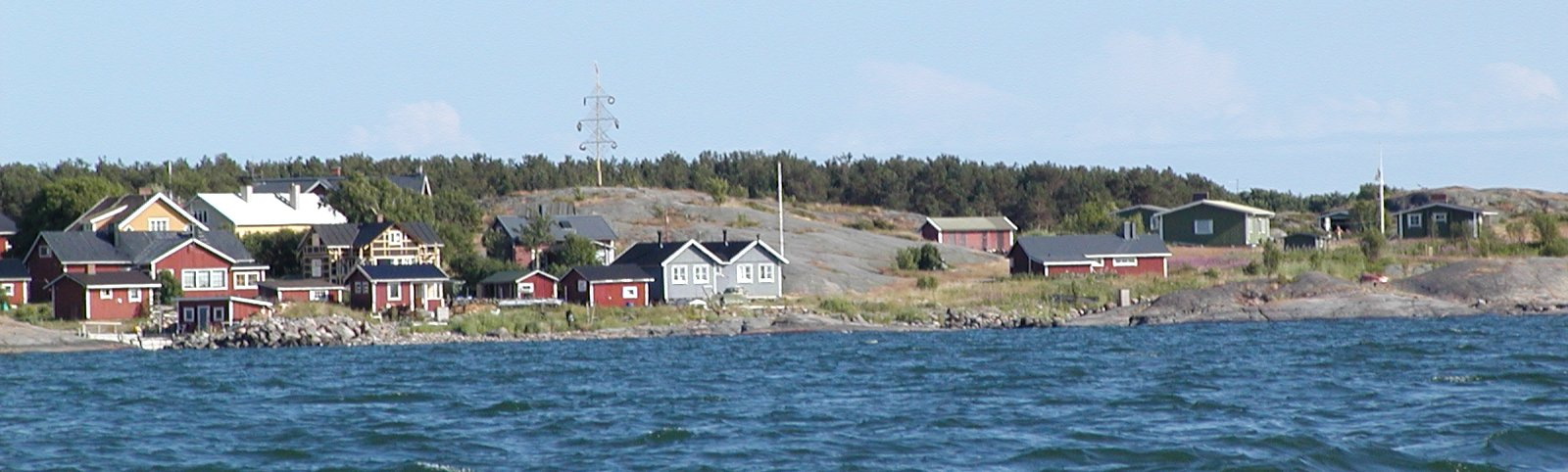 Jurmo island from the northern side. Korpo, Finland